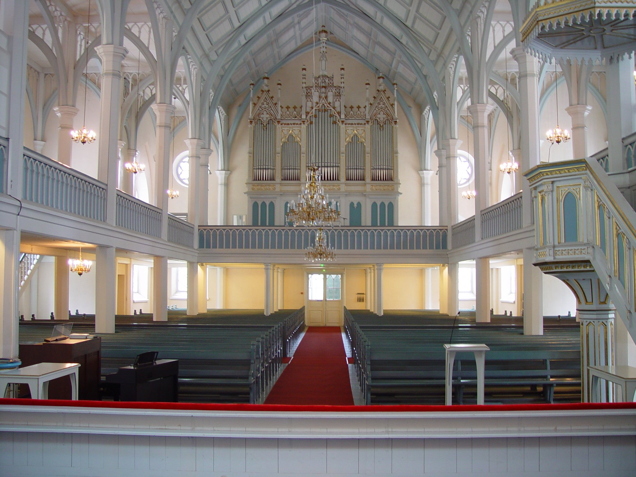 Interior of Asikkala lutheran church, Finland.